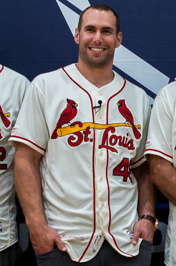 The St. Louis Cardinals baseball team visited Scott Air Force Base, Ill., on Aug. 21, 2019 to see the Wounded Warrior CARE event. The event highlights the resiliency of Air Force wounded warriors. (U.S. Air Force photo by Airman 1st Class Nathaniel Hudson)